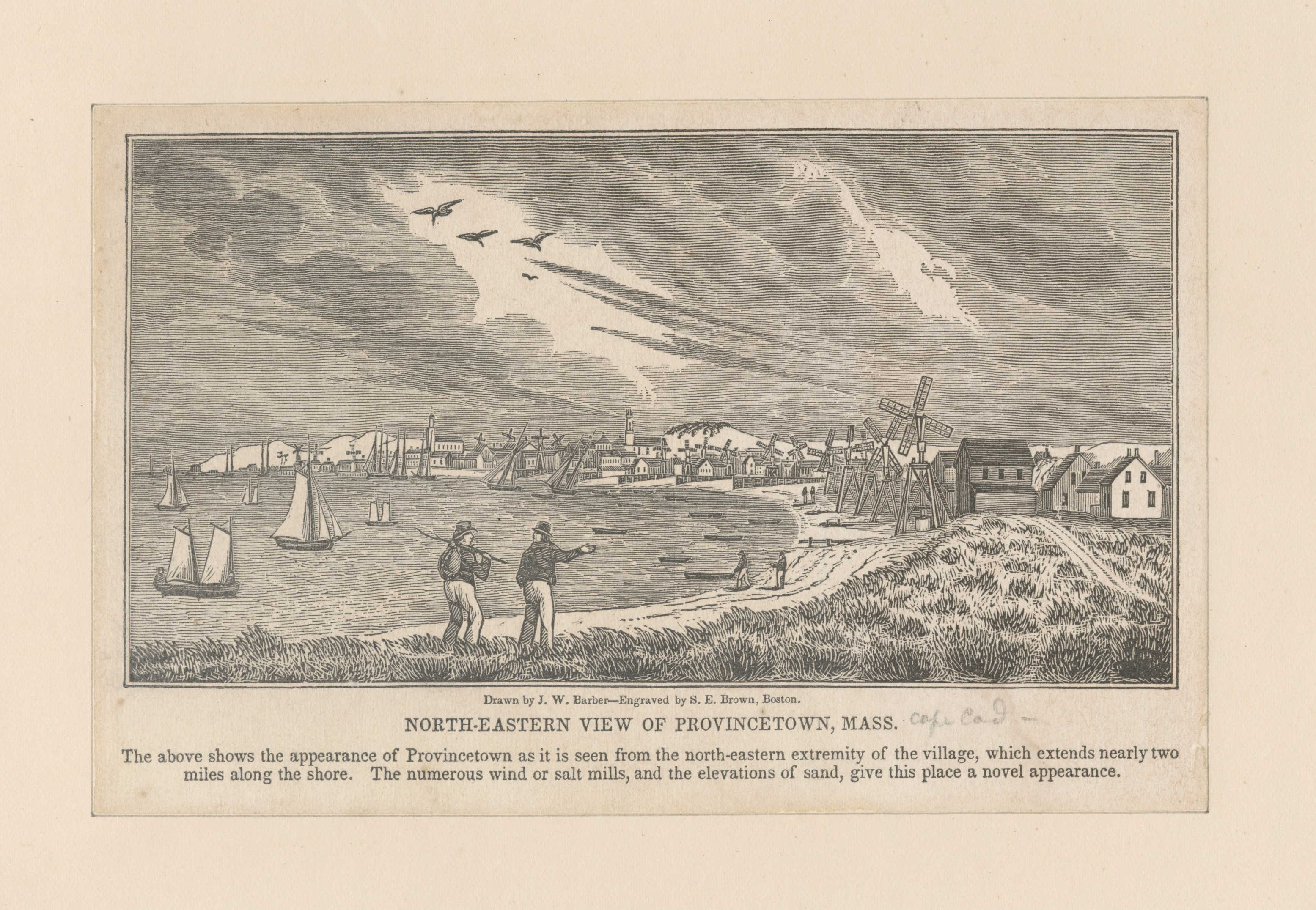 View of Provincetown, Massachusetts from the northeast Includes photomechanical reproductions. Title from Calendar of Emmet Collection. EM10390 Statement of responsibility : S.E. Brown